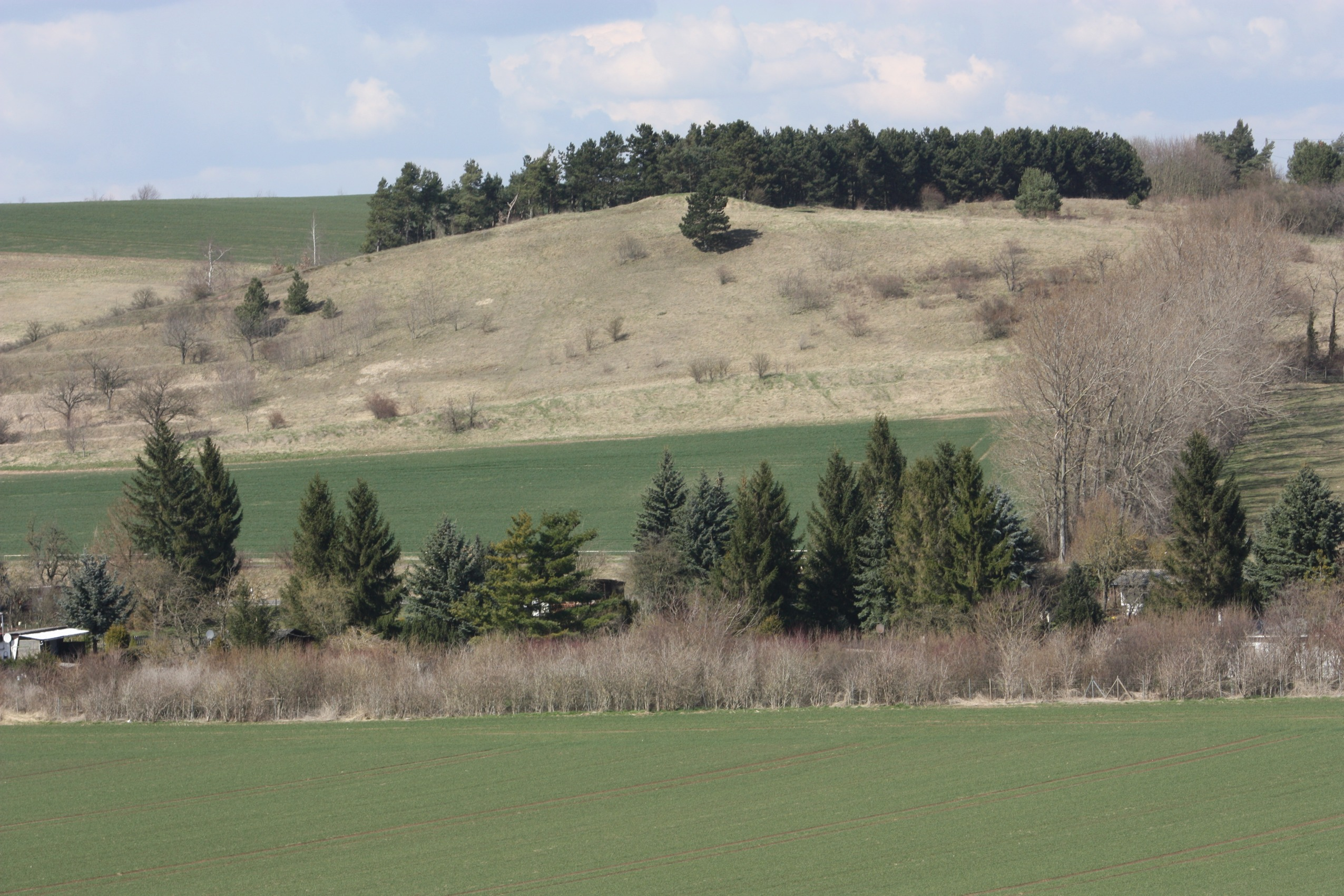 Hornburg (Seegebiet Mansfelder Land), the Hornburg anticline